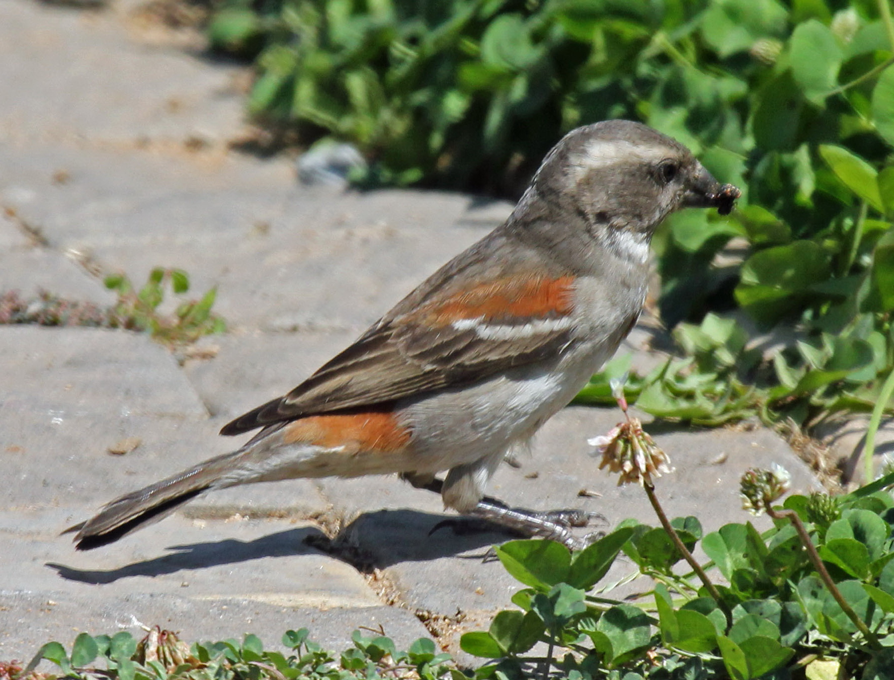 Female Cape Sparrow (Passer melanurus) at Johannesburg, South Africa